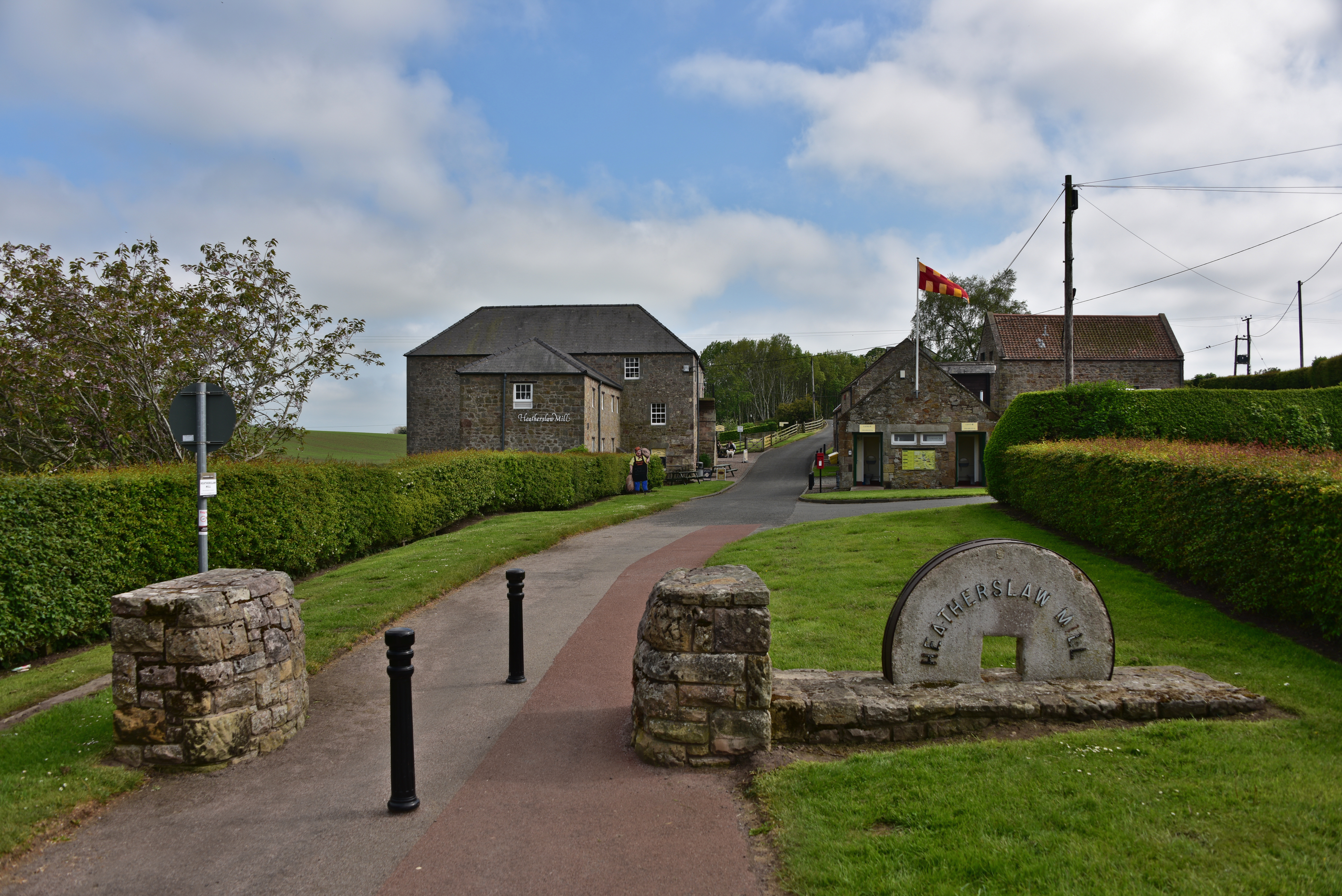 Heatherslaw Cornmill, a working water mill in the village of Etal in Northumberland.